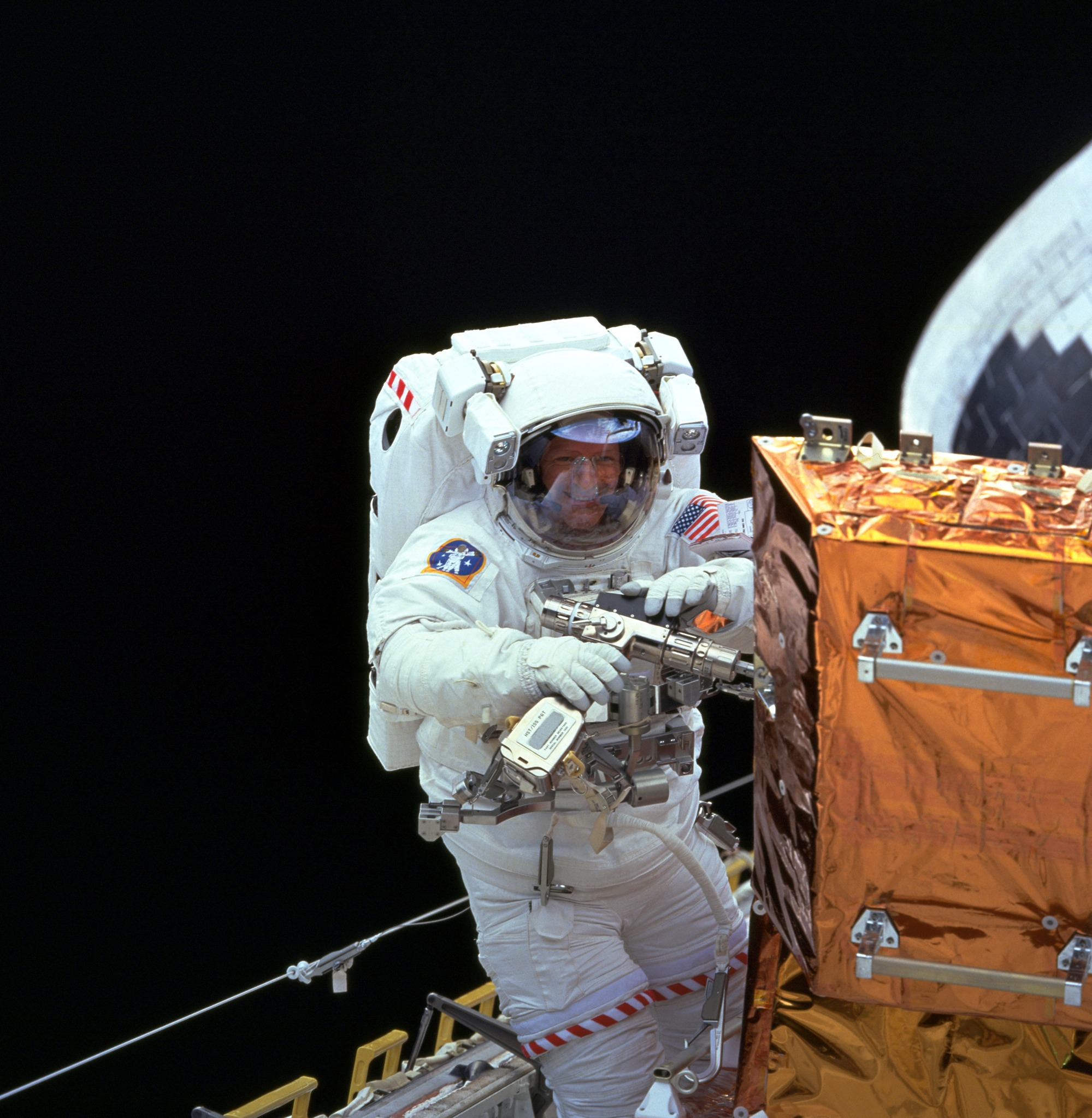 Claude Nicollier, mission specialist from the European Space Agency (ESA), works at a storage enclosure, using the Pistol Grip Tool (PGT), one of the unique Hubble Space Telescope (HST) tools, during the second of three STS-103 extravehicular activities (EVAs).